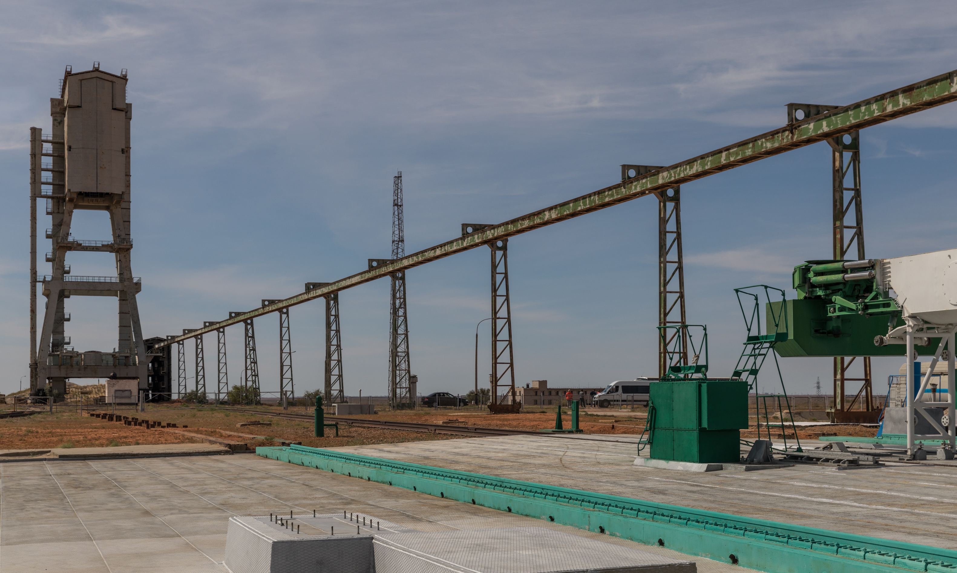 Cosmodrome Baikonur. Launch Pad Constructions. Zenit launch pad. In Baikonur Cosmodrome there are about 10 main launch pads and several other pads, some of them are destroyed or inactive. Now Russia is constructing a new cosmodrome, the Vostochny Cosmodrome, in Amur Oblast.